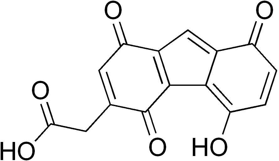 chemical structure of norhipposudoric acid